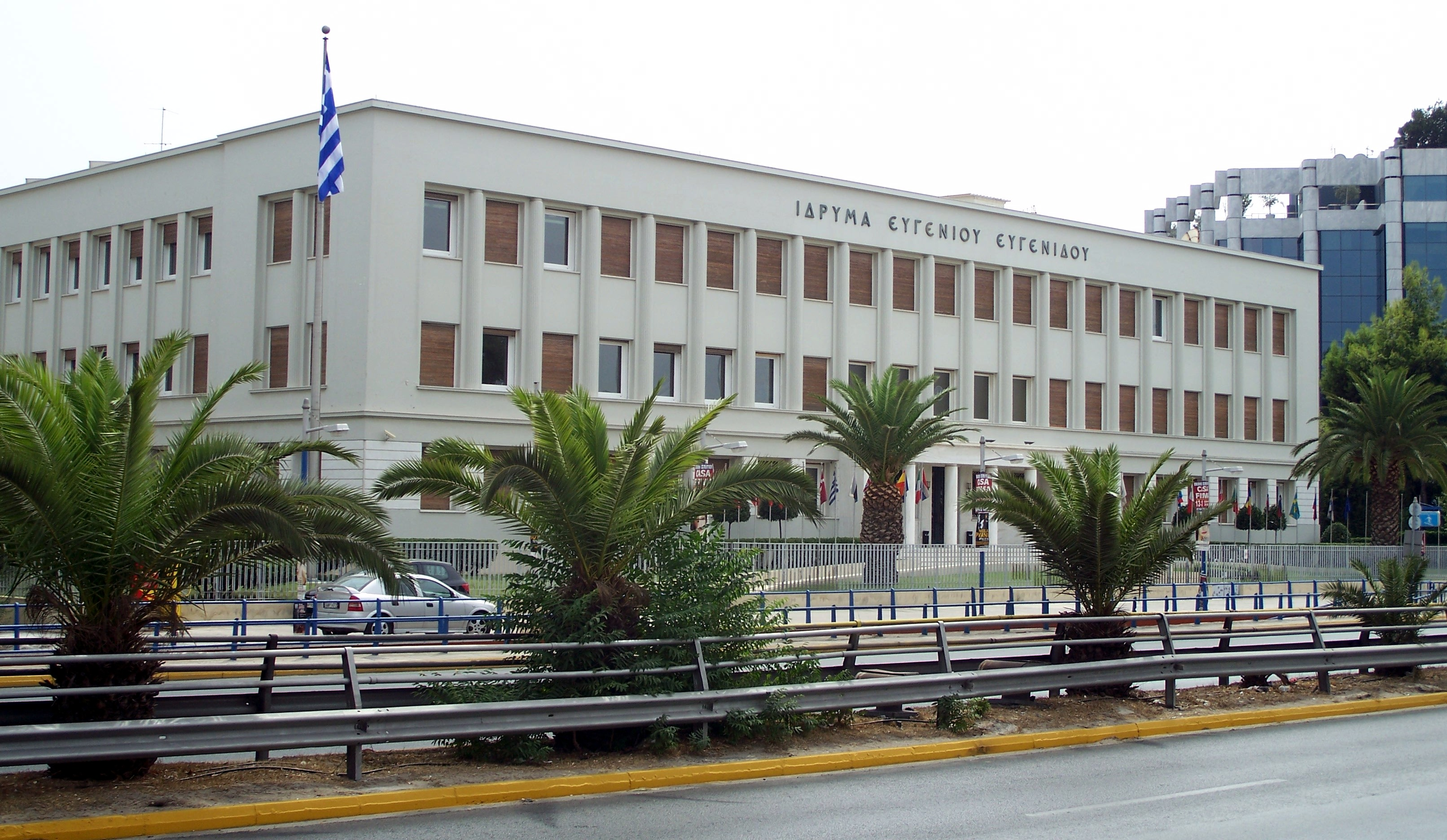 The Evgenides Foundation,located in Faliro, Athens